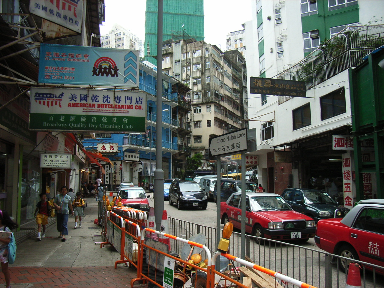 Stone Nullah Lane, Wanchai, Hong Kong 石水渠街 Created by Jam Mei SUM